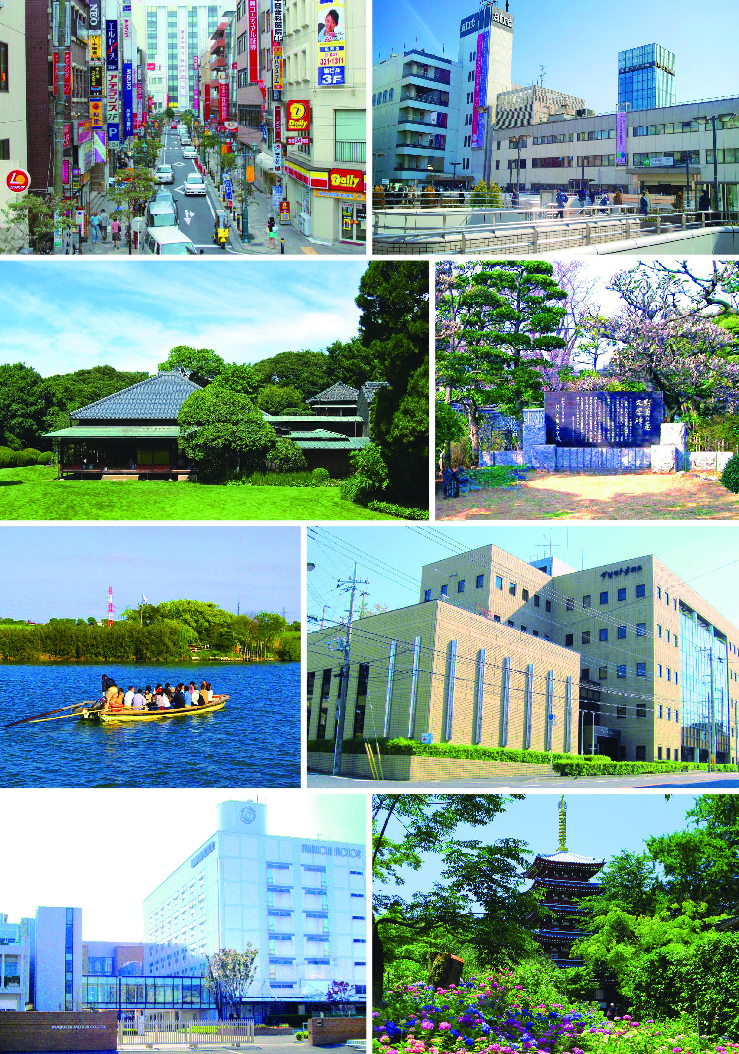 Matsudo montage.jpg